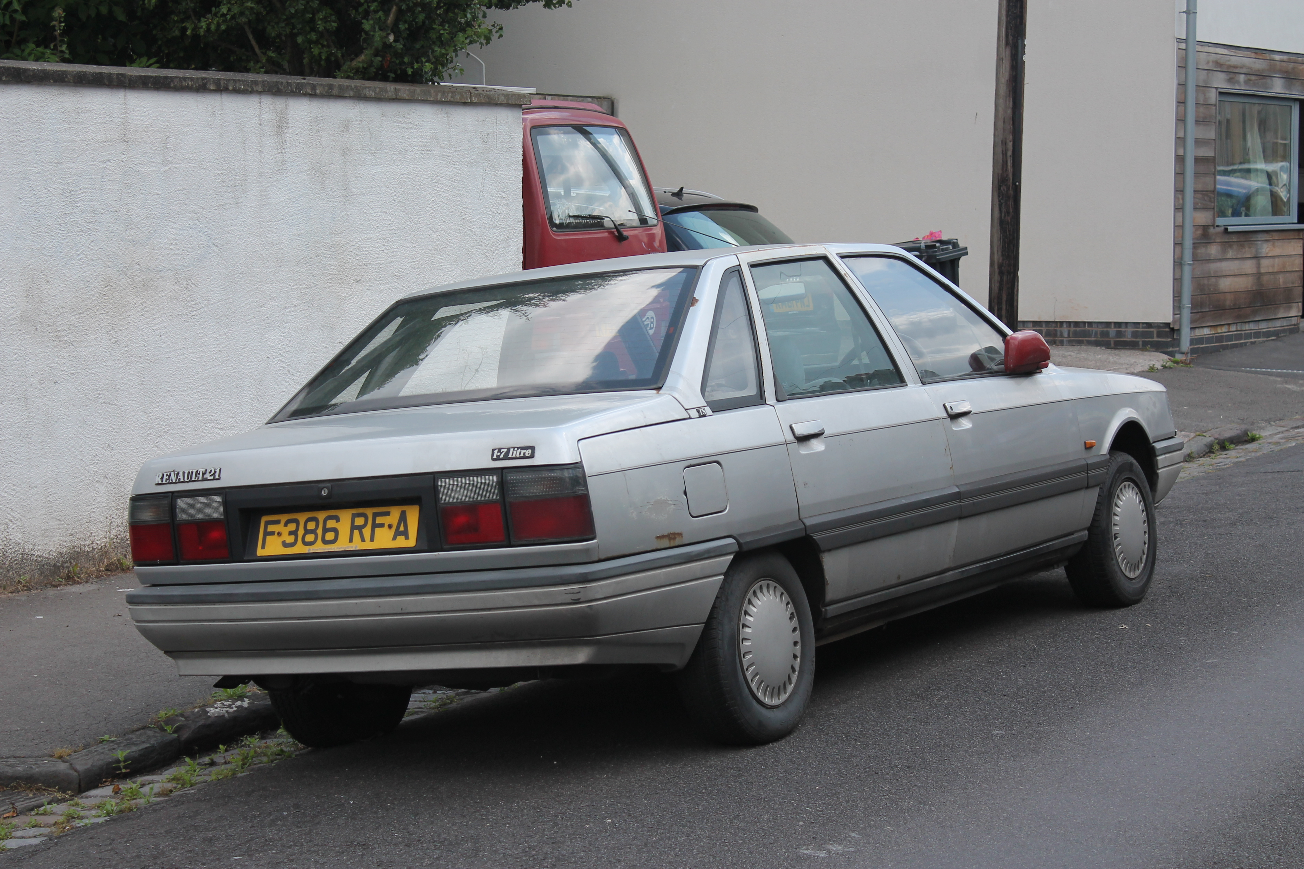 This was such a pleasant surprise, it's actually been years since I've seen a pre-facelift 21 in the UK, even in France they seem to be elusive. I really like the look of these. This one has the appearance of a car that's led a hard life, it looks a little bashed around but nothing too serious. I like the fact it retains those wheeltrims, but the mirrors are a bit of a mystery to me- both sides?! They do look like proper 21 Mirrors, but both are in a shade of red, which doesn't fit at all with this car! I was so pleased to see a saloon 21 too, they seem to be the rarest of the 21 body shapes over here. One of just 4 licenced on the roads, and is the only 1988 car. The vehicle details for F386 RFA are: Date of Liability 01 07 2014 Date of First Registration 29 09 1988 Year of Manufacture 1988 Cylinder Capacity (cc) 1721cc CO₂ Emissions Not Available Fuel Type PETROL Export Marker N Vehicle Status Licence Due to Expire Vehicle Colour SILVER Vehicle Type Approval Not Available